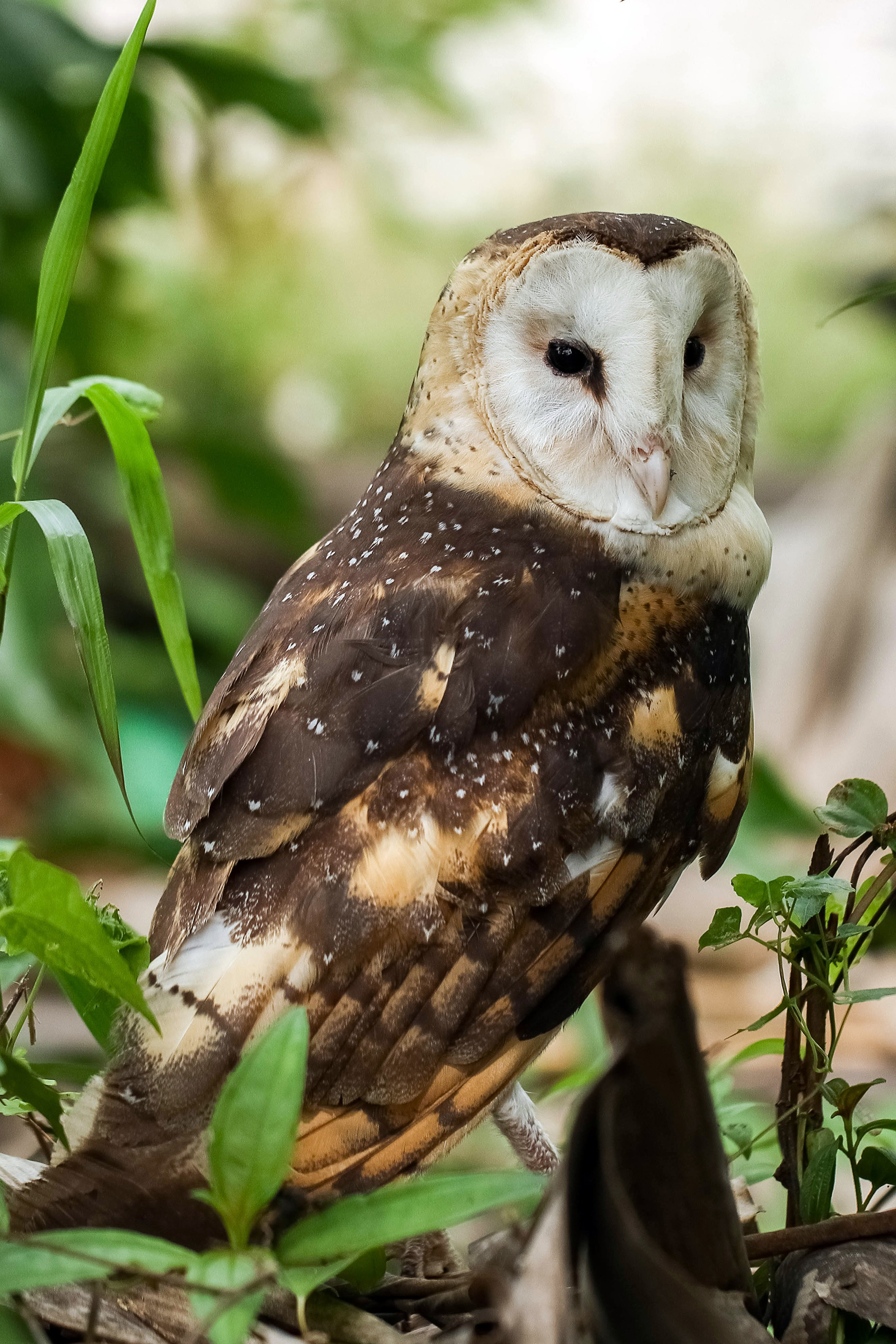 Eastern Grass Owl Tyto longimembris, Borneo, Indonesia